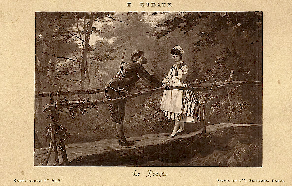 Le Péage, black & white photogravure reprint of an albumine photography from a painting by Edmond Rudaux (1868), printed by Goupil & Cie (Ateliers d'Asnières). Dim. : 11,5 x 16.2 cm.